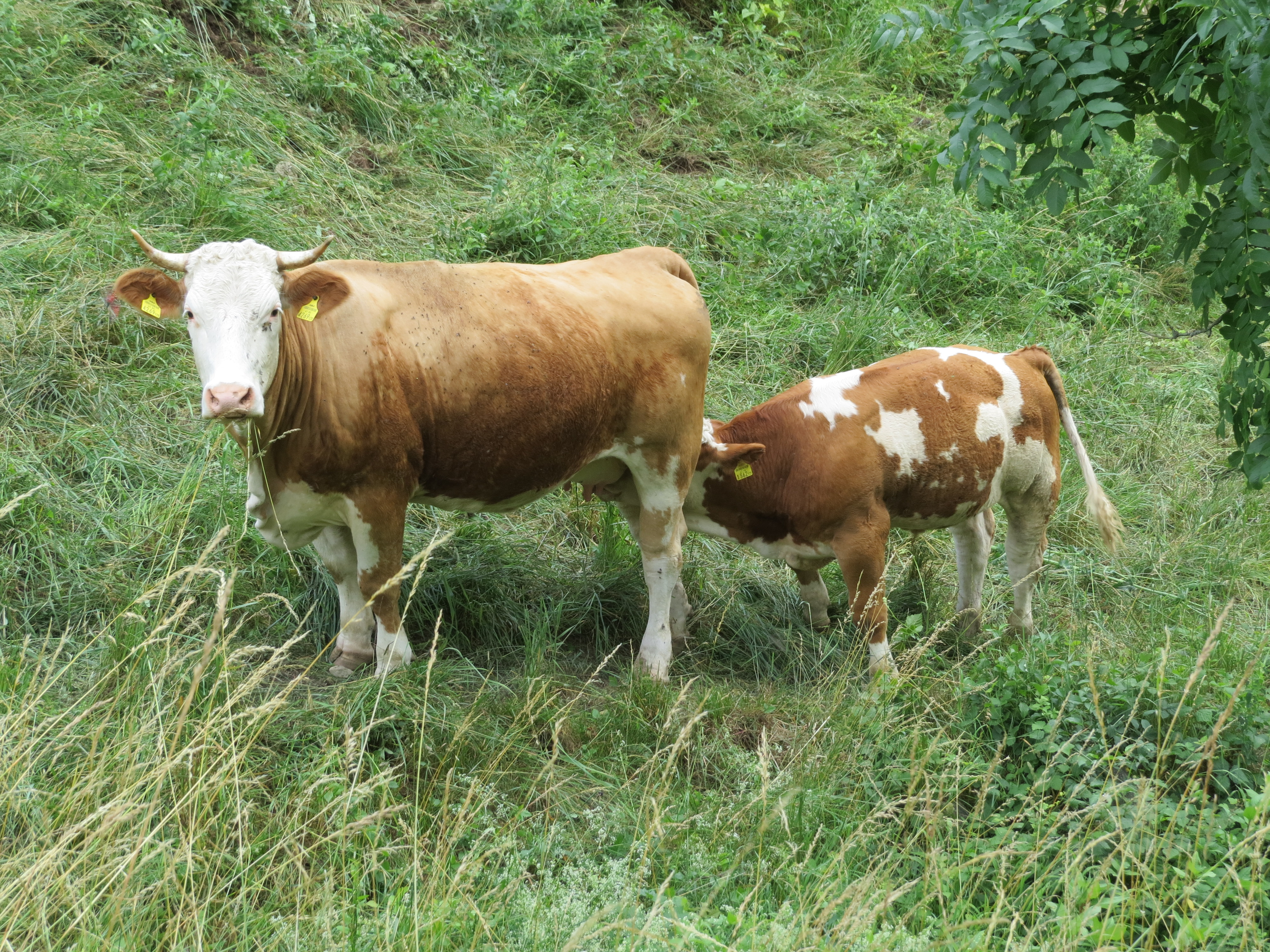 Cows at Haltgraben in Frankenfels, Austria